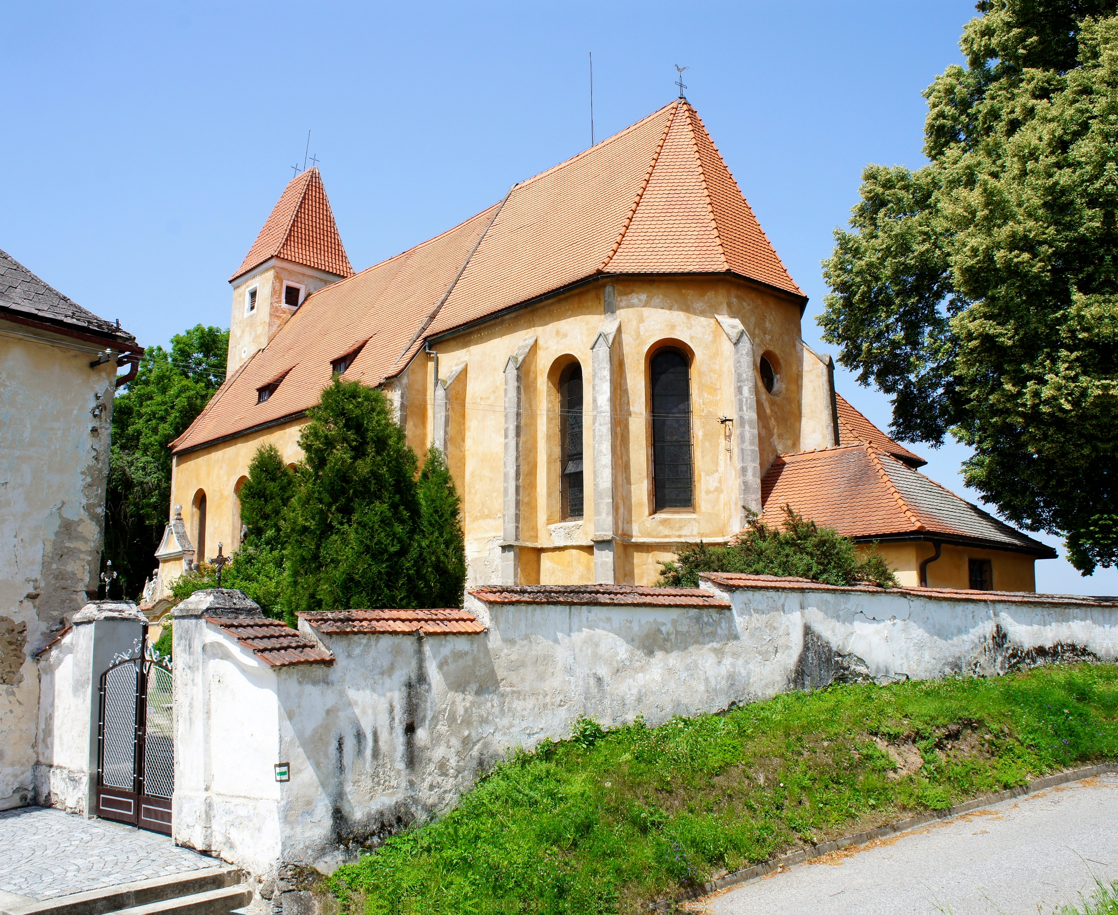 Saint Bartholomew Church in Malonty (South Bohemian Region, Czechia).